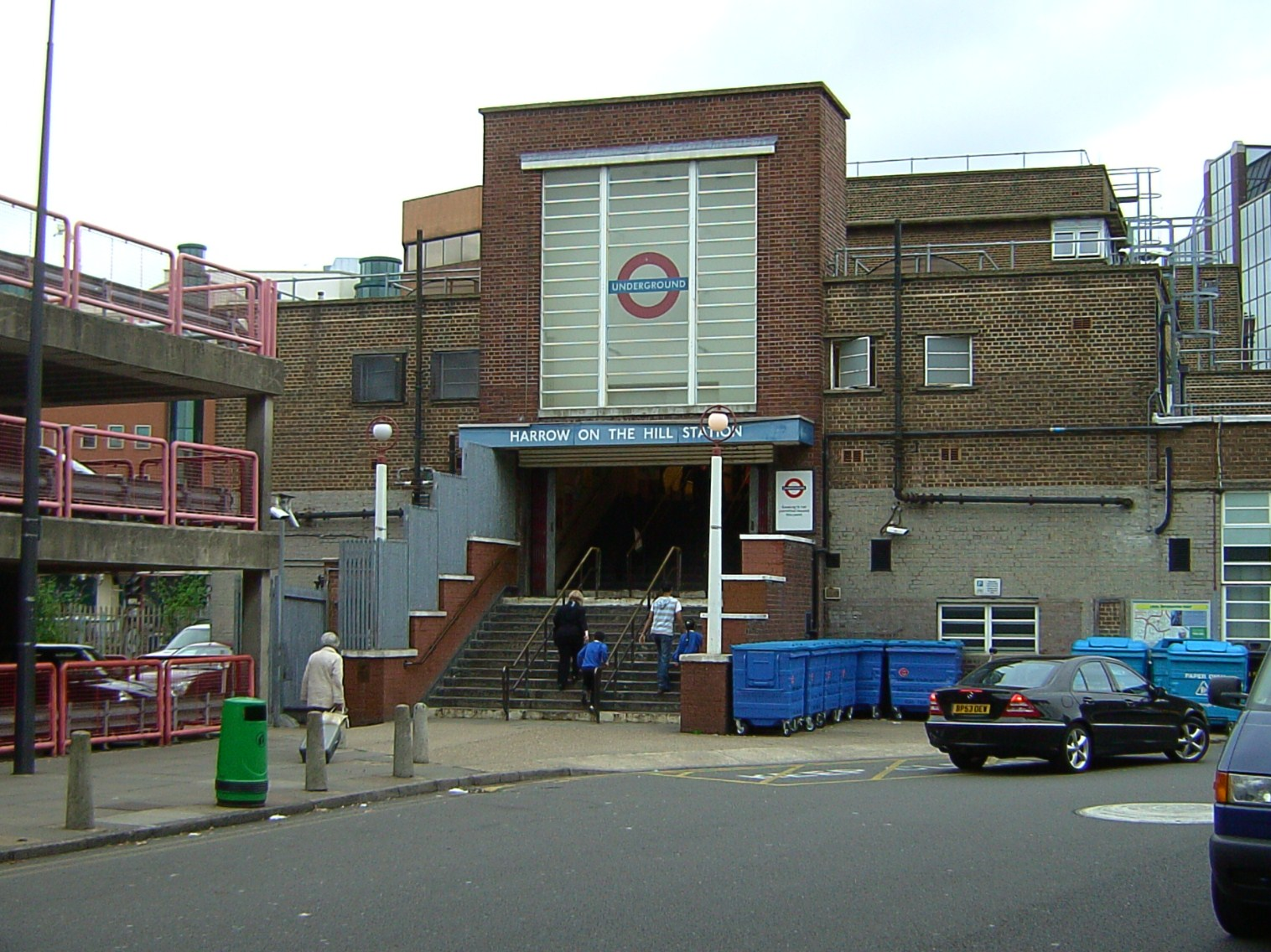 Harrow-on-the-Hill tube station.